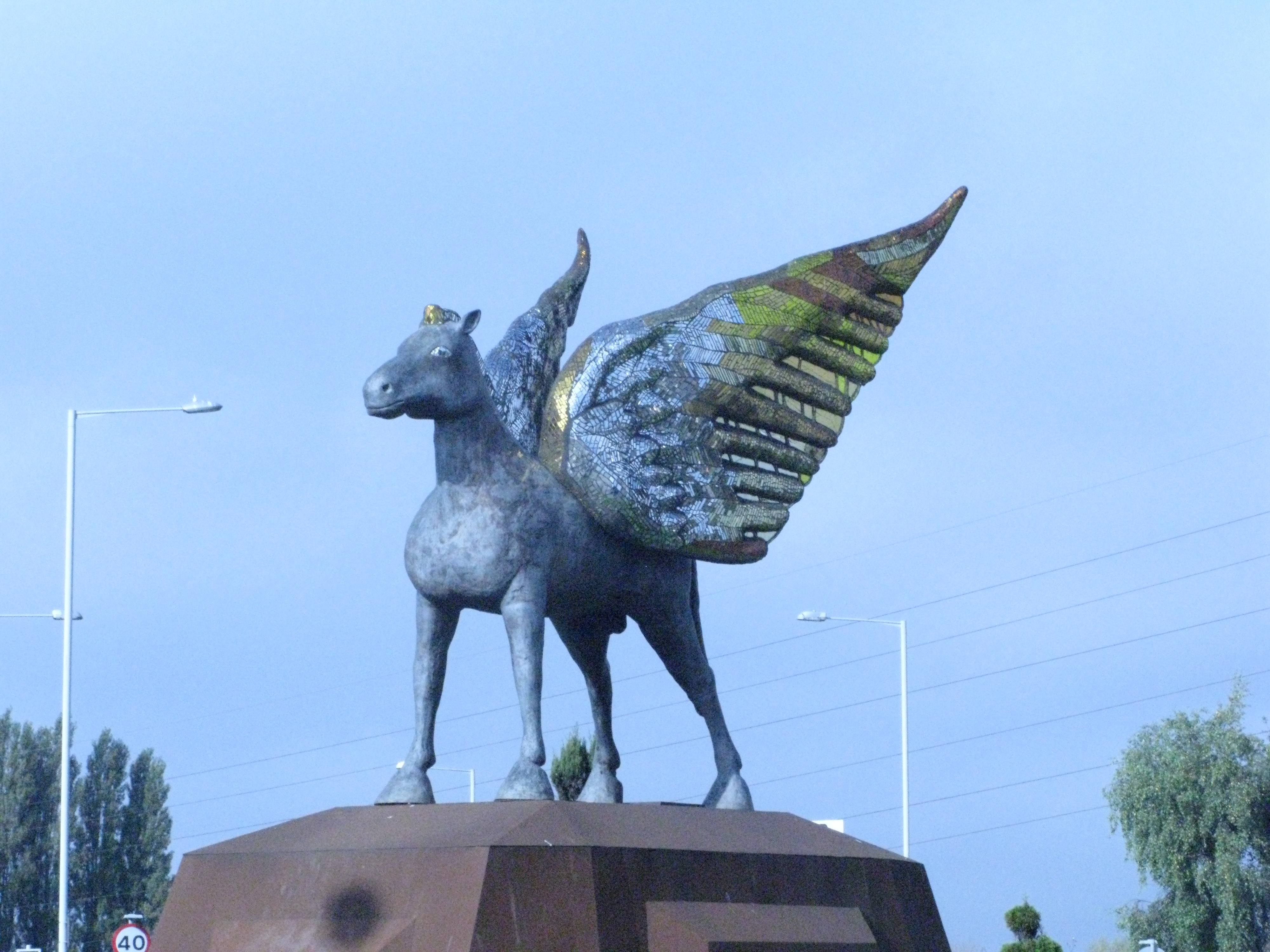 Scotts Green Island: artist Andrew Logan